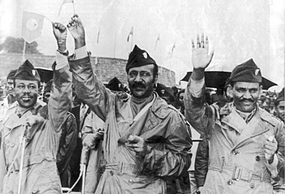 Leading members of the Derg; Mengistu Haile Mariam, Teferi Bante and Atnafu Abate.